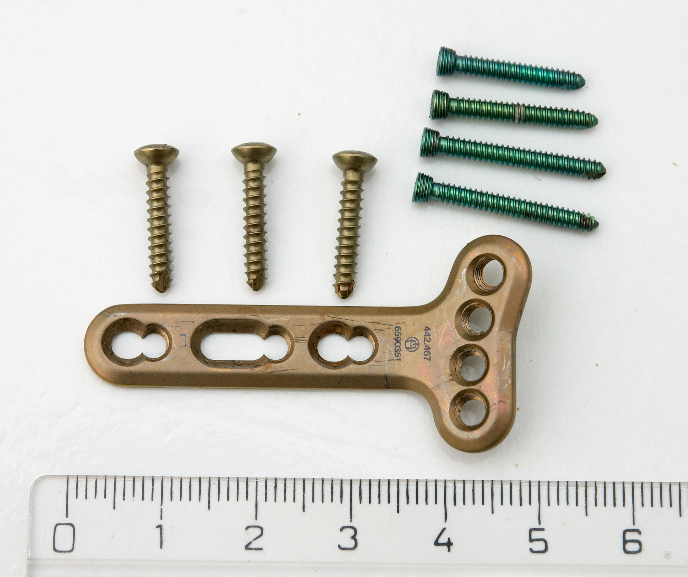 Medical screws used for fixation after a fracture of the wrist. The scale is in centimeters.